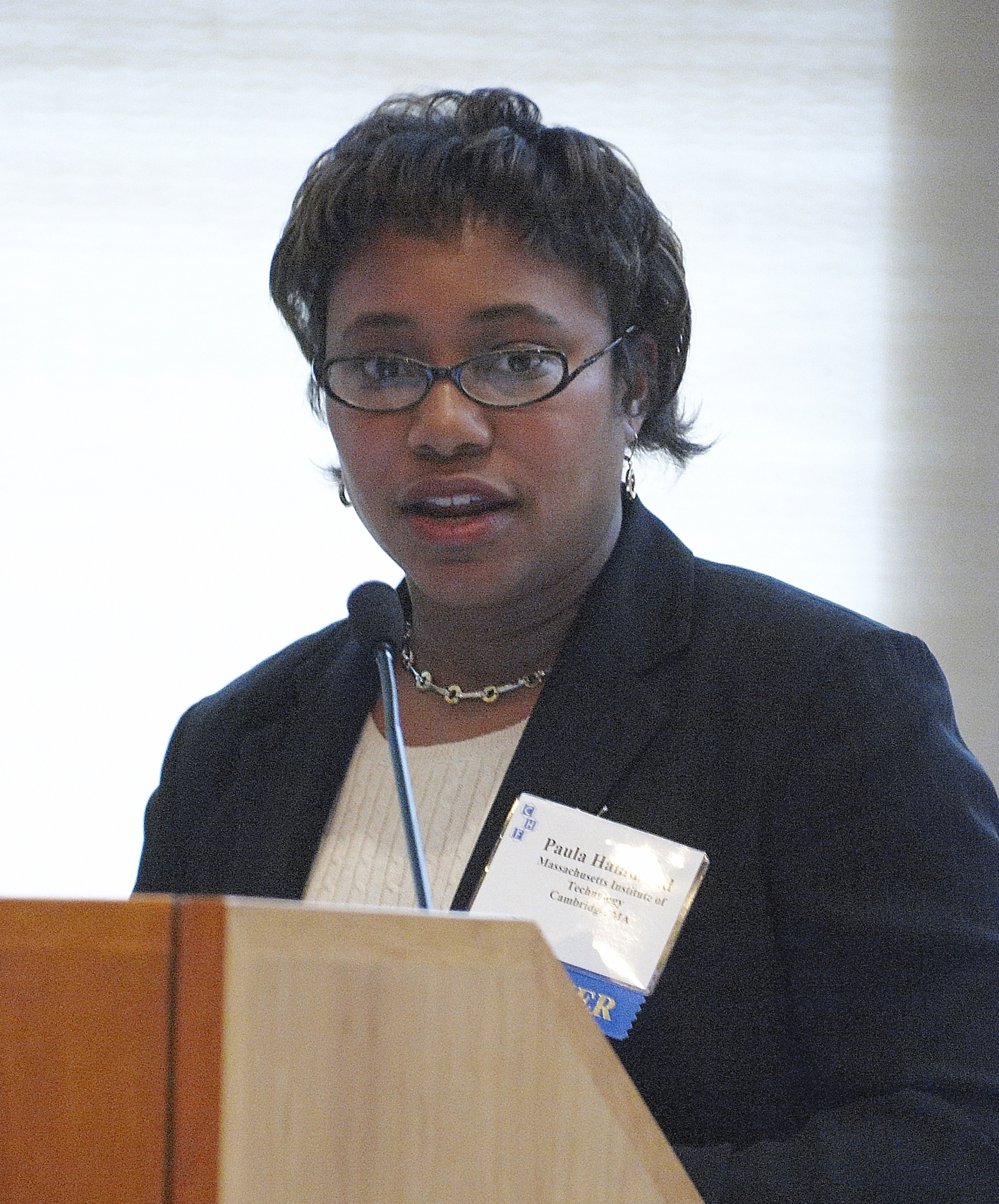 Photograph of chemist Paula T. Hammond, taken at the Joseph Priestley Society Lecture, 2006-03-09, at the Chemical Heritage Foundation, Philadelphia, PA, USA.